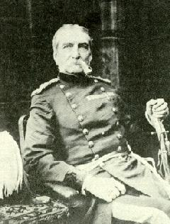 An official photographic portrait of Lieutenant-Colonel Sir Andrew Clarke (27 July 1824 – 29 March 1902), Governor of the Straits Settlements from 1873 to 1875.